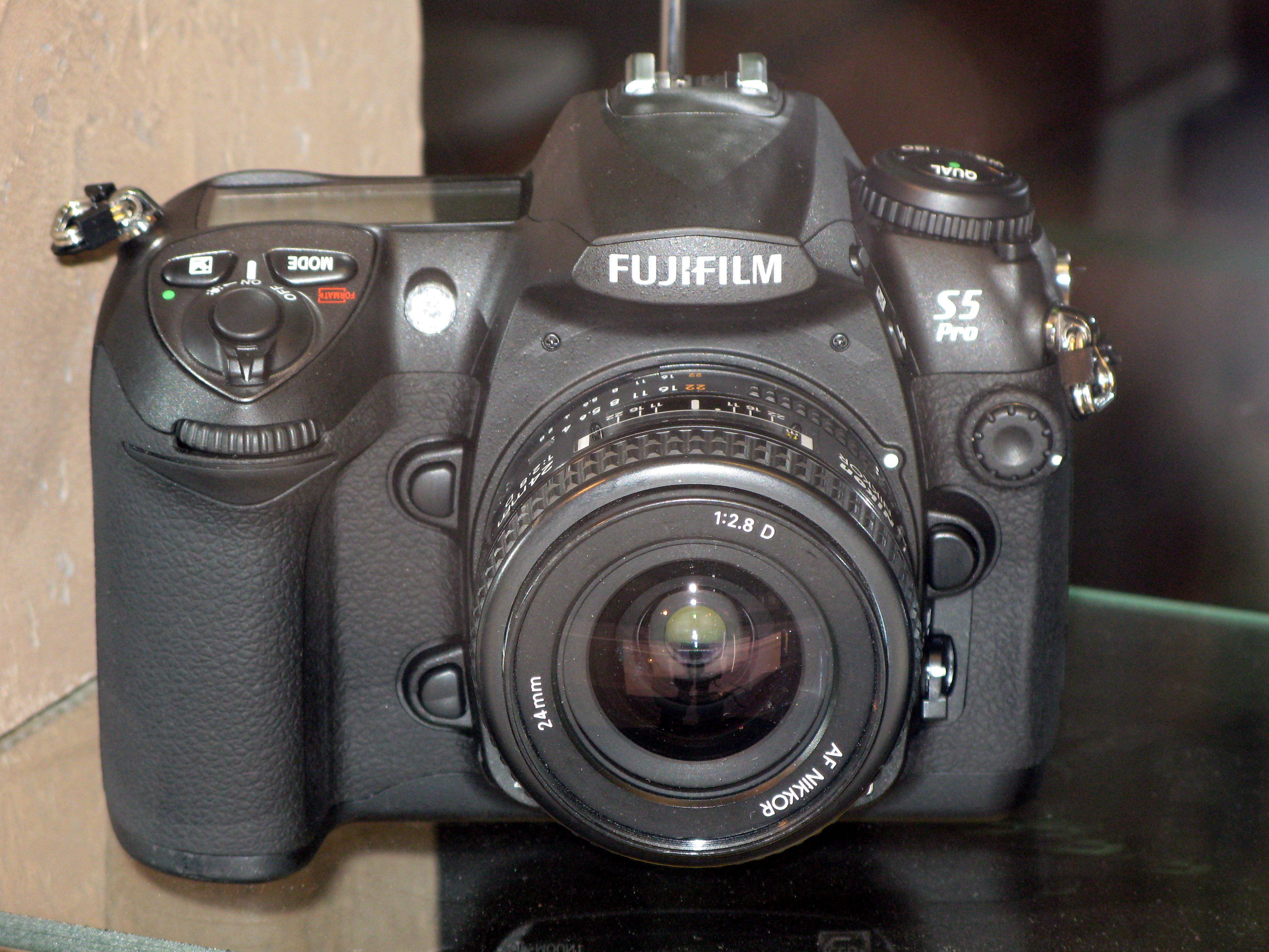 Fujifilm S5 pro